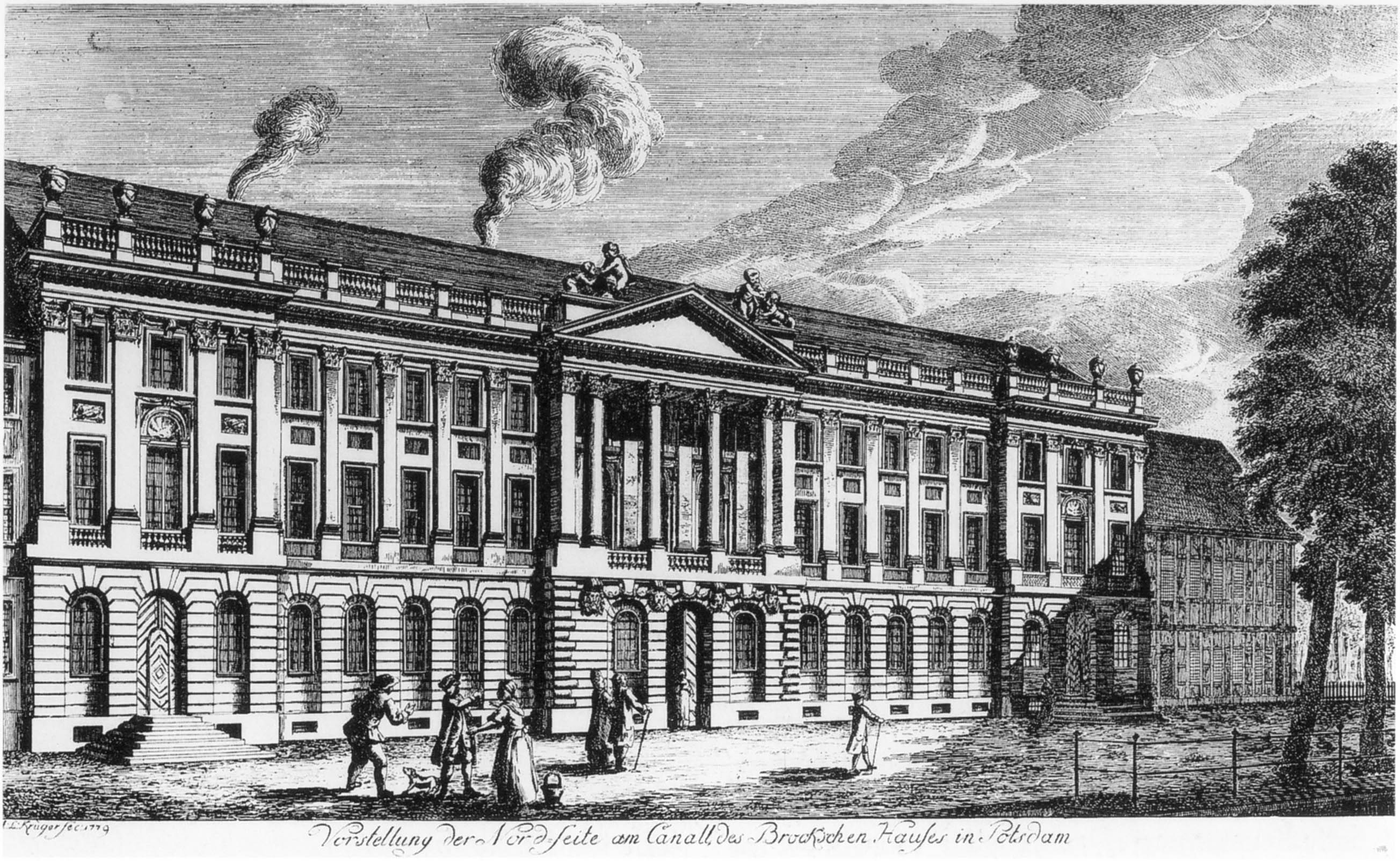 Dwelling house Yorckstraße 19/20 in Potsdam, created by Carl von Gontard and built in 1776